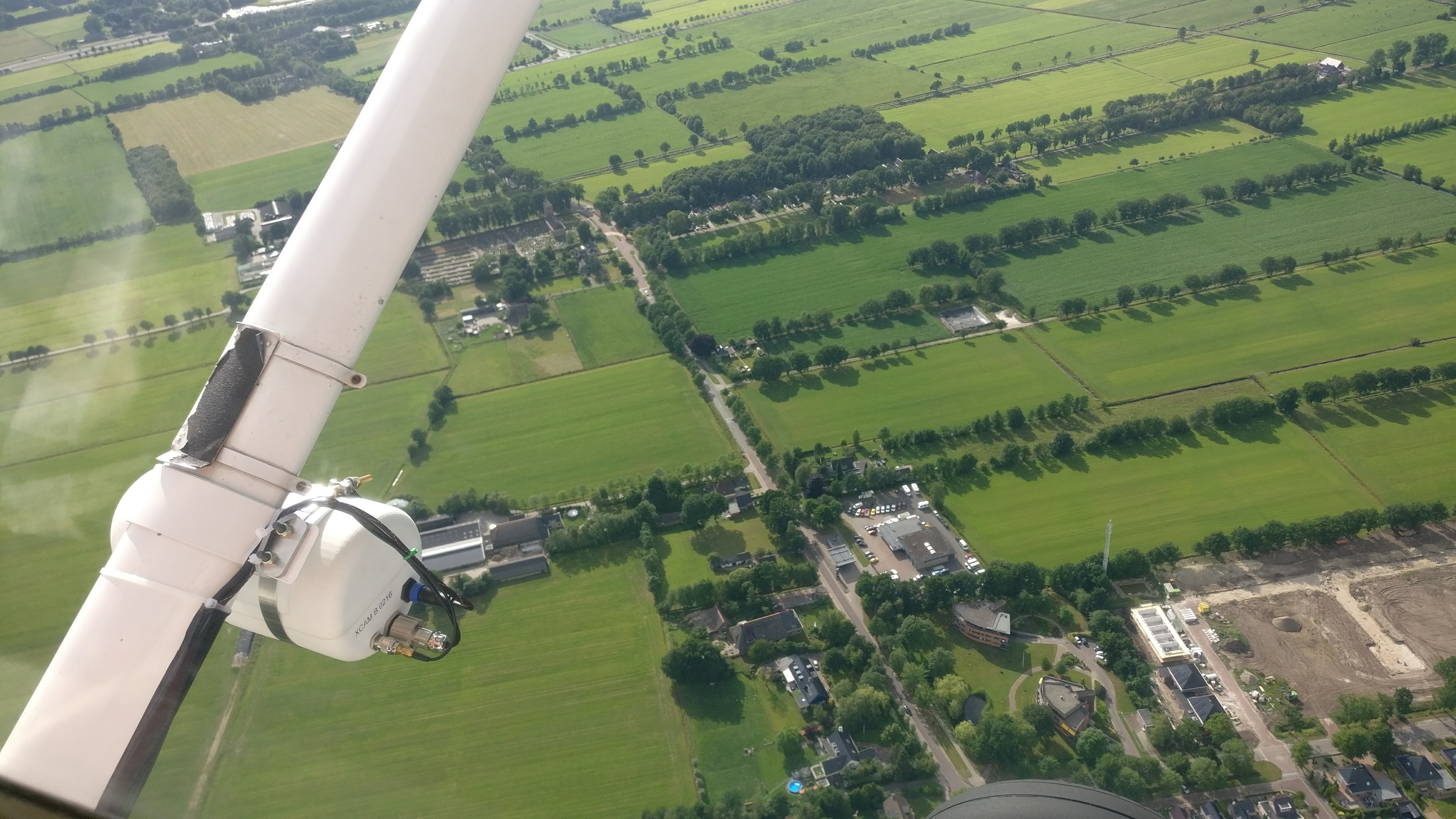 An XCAM aerial survey camera mounted to the exterior of a Cessna 172, used to capture photographs used in digital mapping.